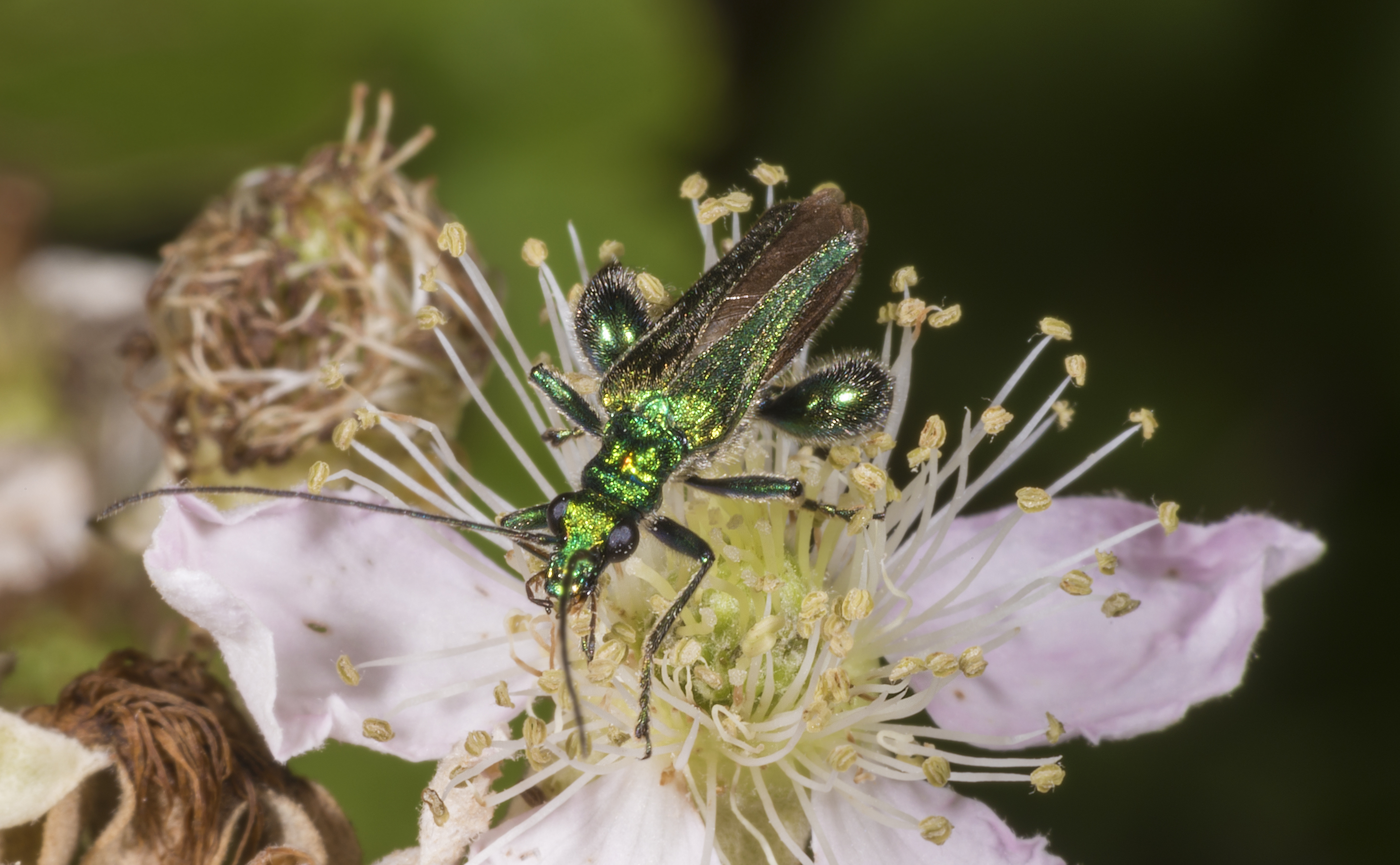 Thick-Legged Flower Beetle